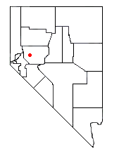 NV Map-doton-Fallon Station